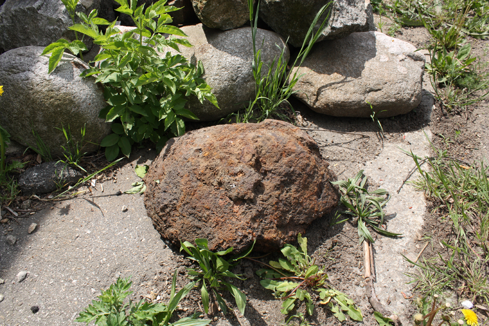 Ingot pig from 19th century smelters in Raduil, Bulgaria